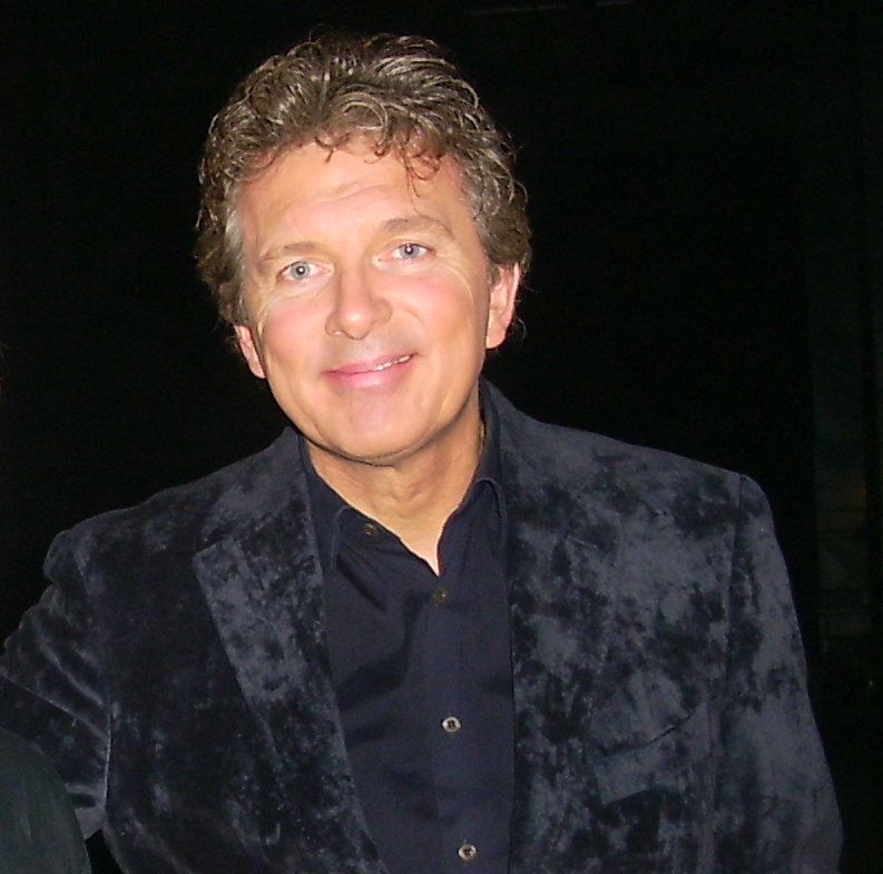 TV-host Robert ten Brink, shortly before shootings of a game-show.